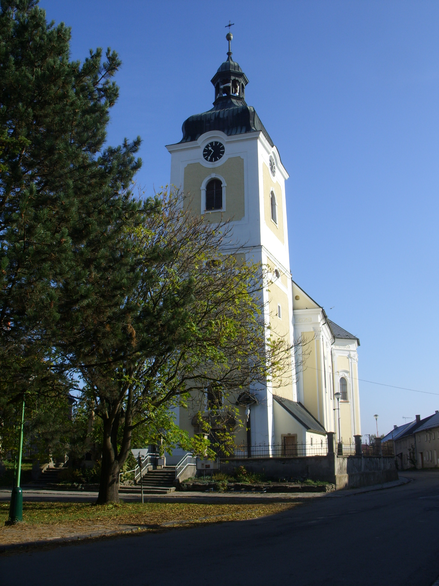 Baroque church of St. Mary Magdalene, built in 1705, in Senice na Hané, Olomouc District, Czech Republic